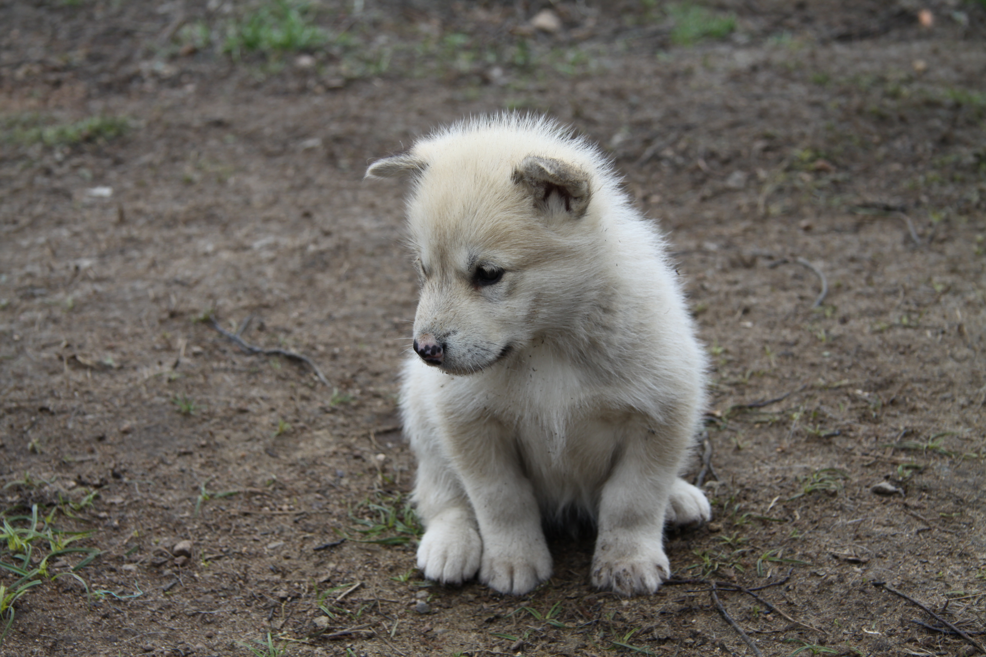 Puppy of Grønlandshund dog in Sisimiut, Western Greenland